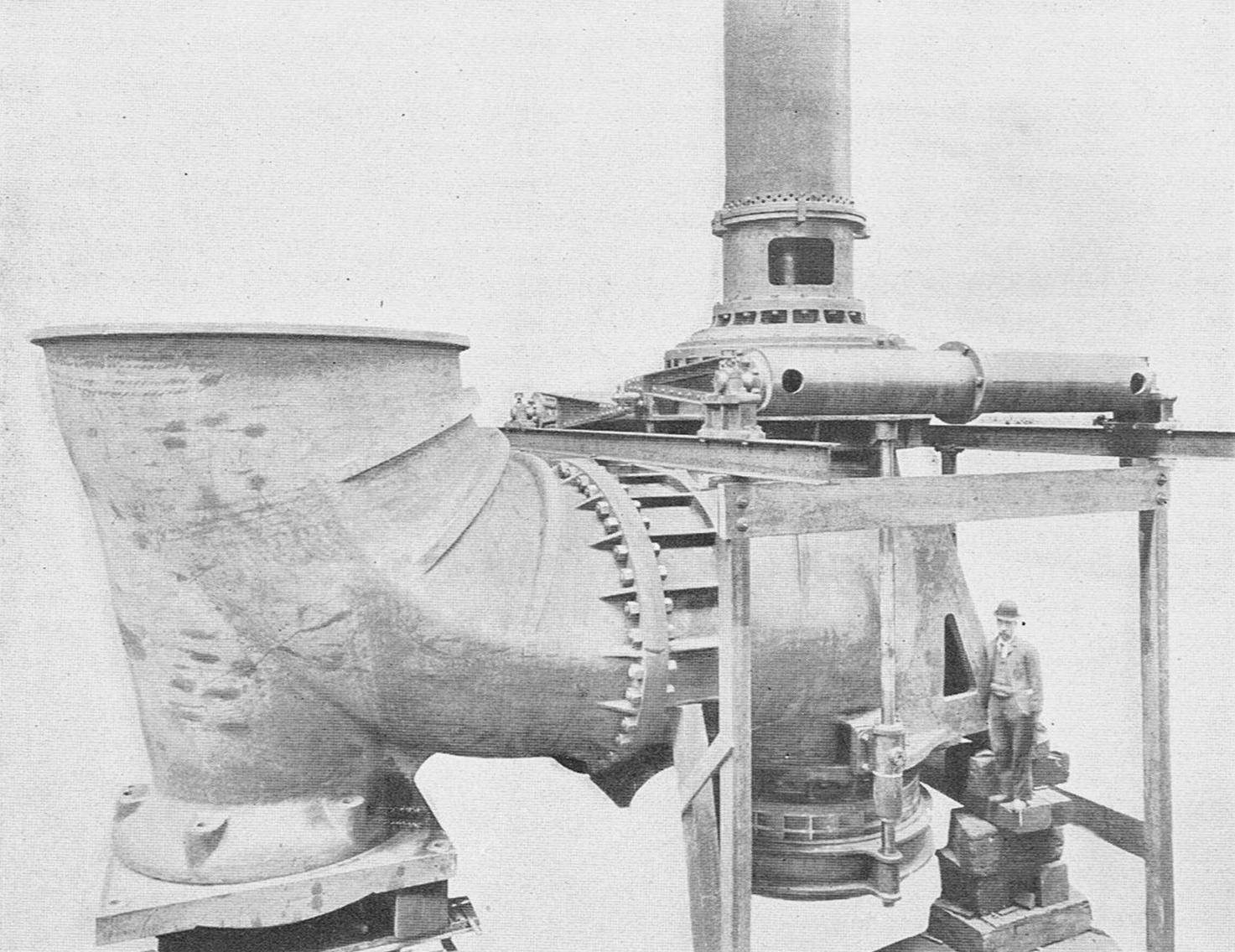 One of the Niagara Power Company's 5000 Horse-Power turbines designed by Faesch & Piccard, Geneva, Switzerland. Built by the I.P. Morris Co., Philadelphia, PA., USA